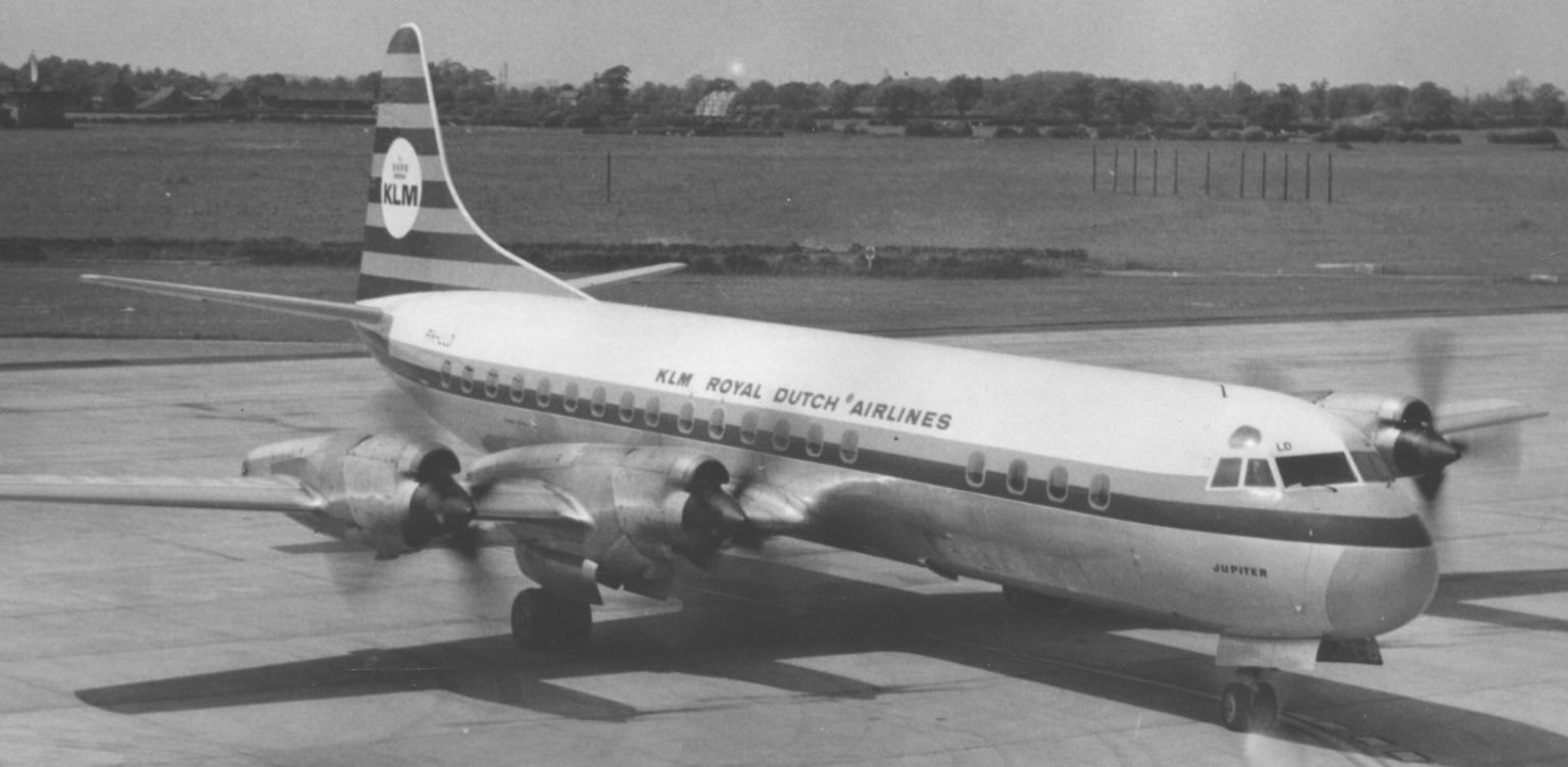 Lockheed L188C Electra PH-LLD "Jupiter" of KLM